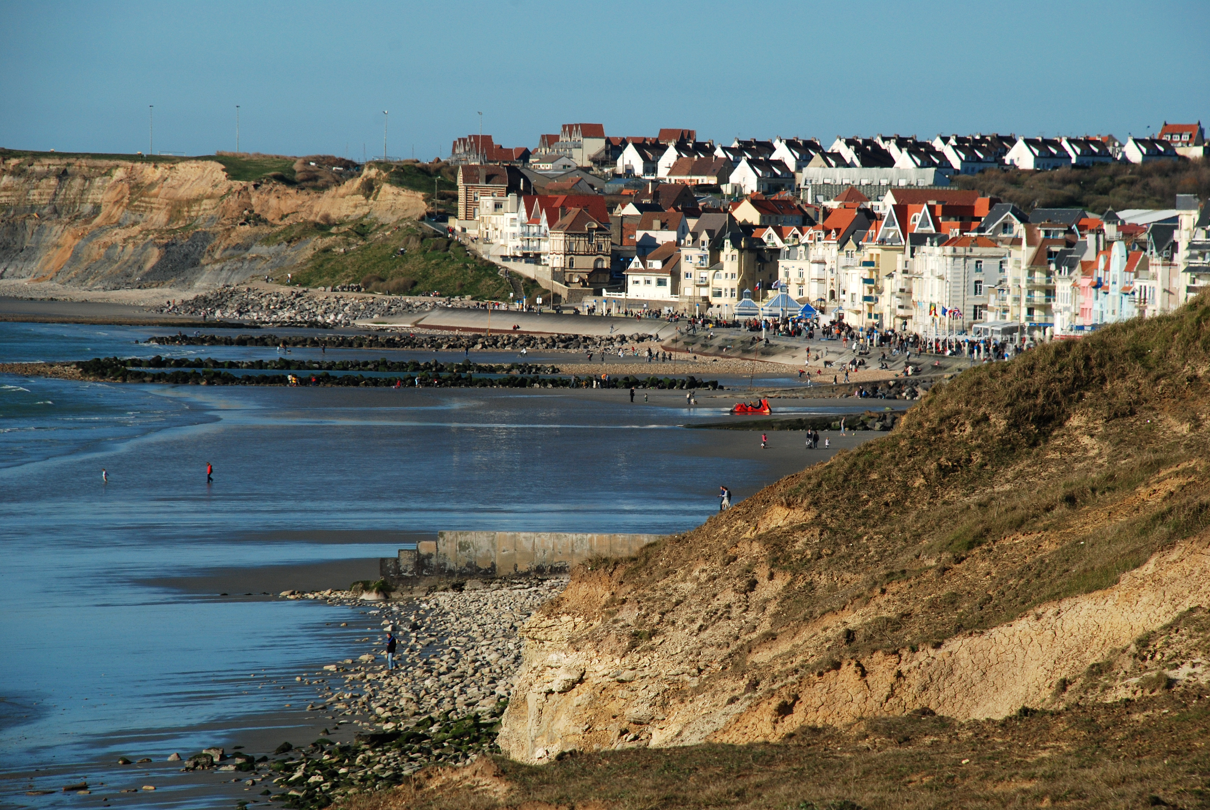 Coastal view of the touristic town Wimereux